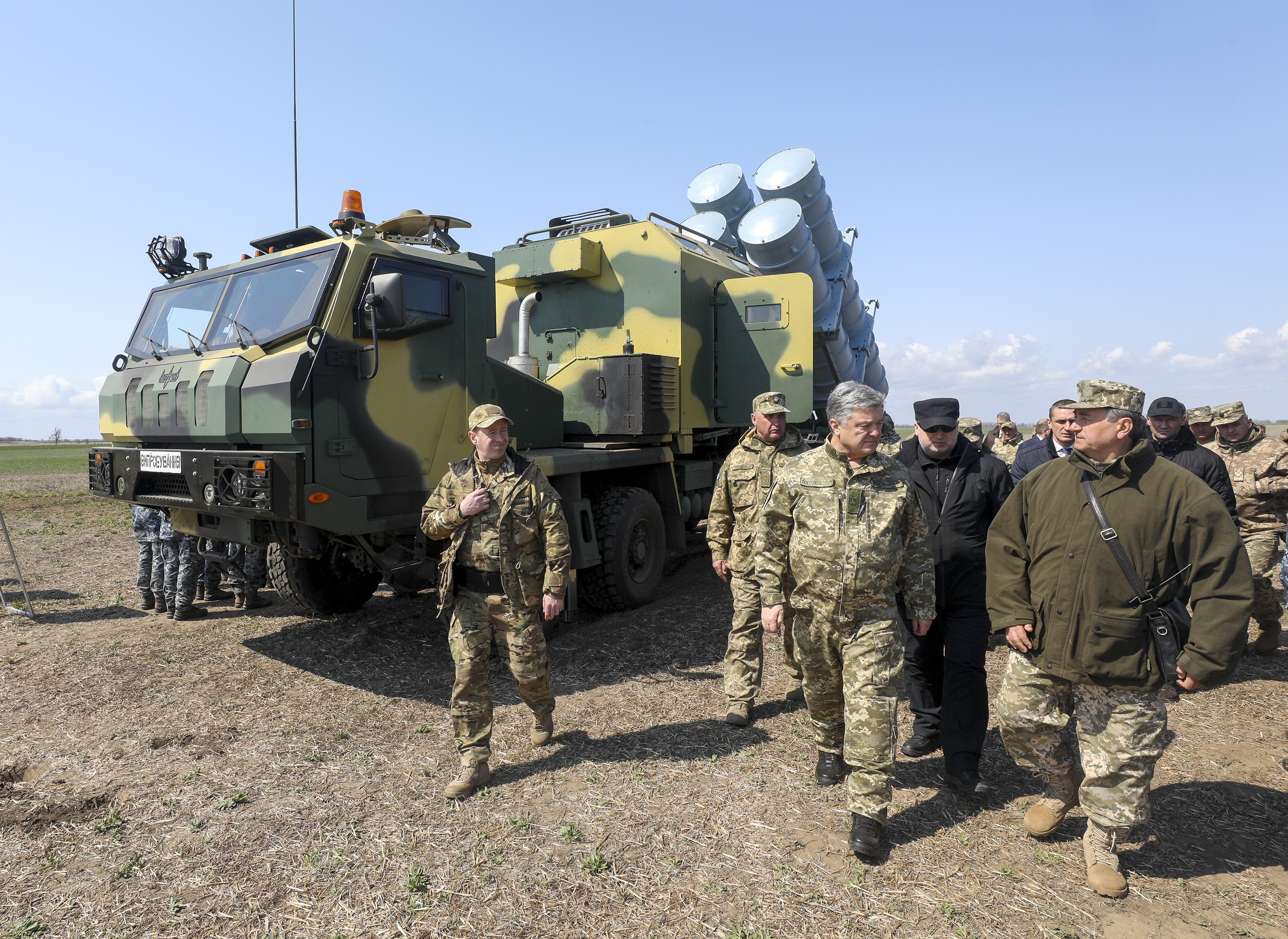 Neptune (cruise missile)